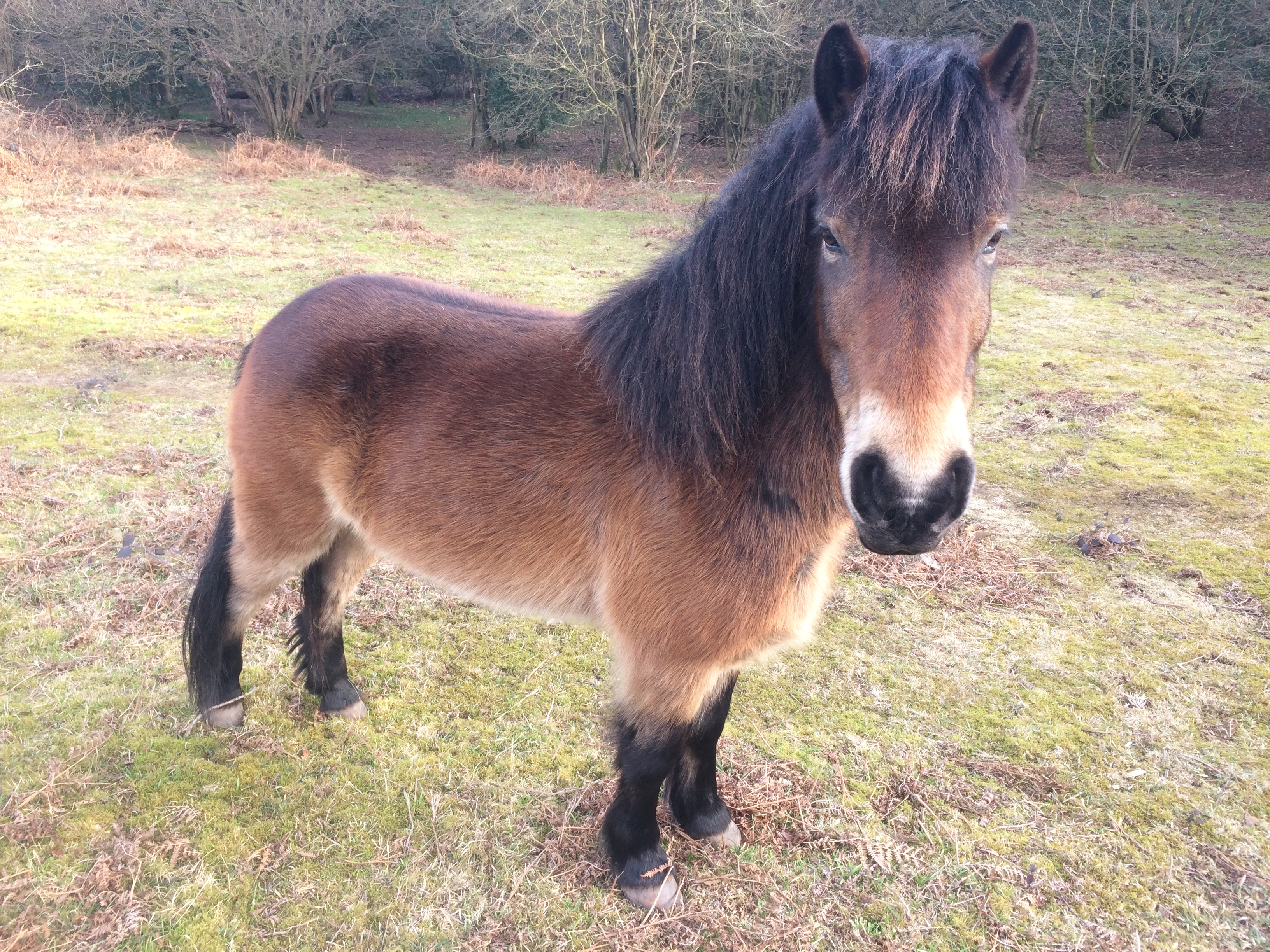 Exmoor ponies